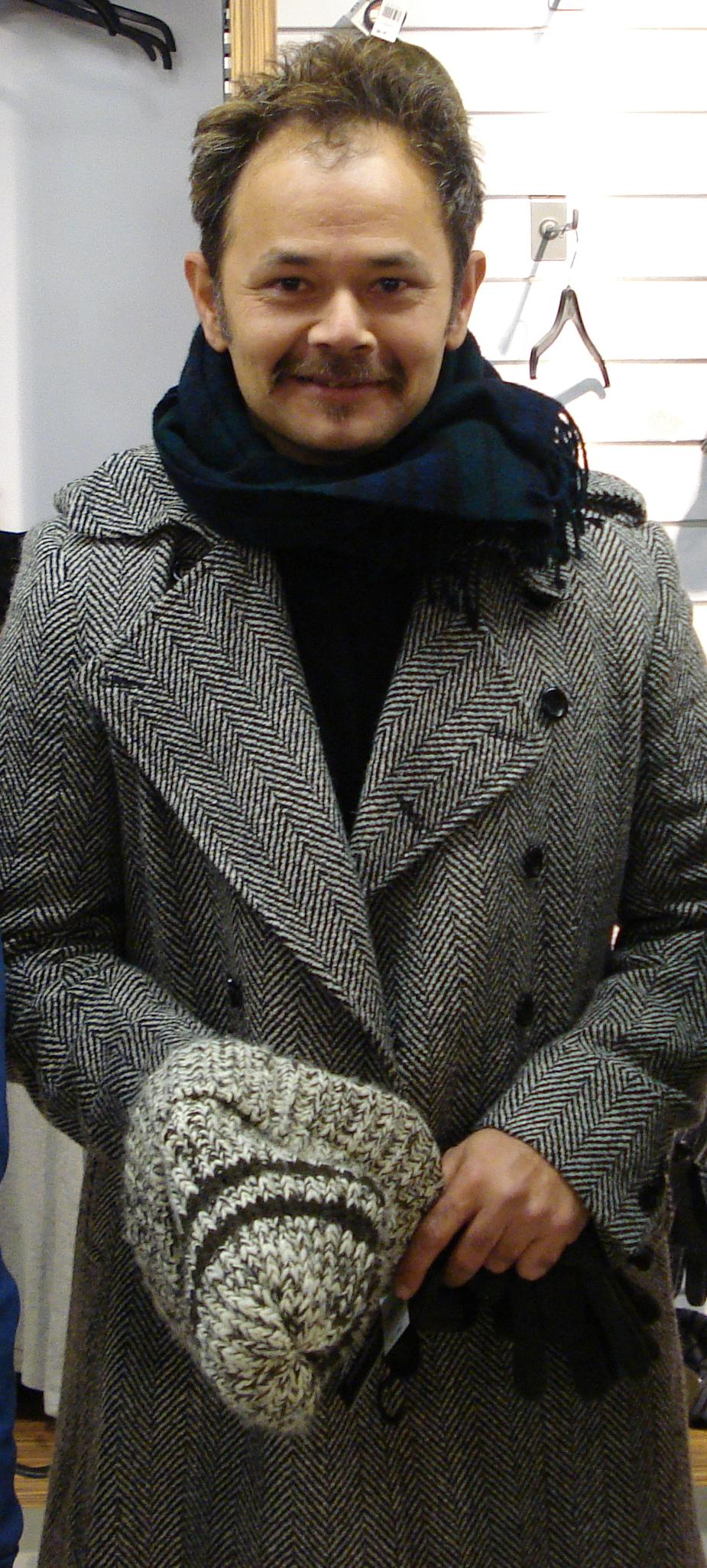 picture of Raj Zutshi taken by uploader at Oxford Street, London.